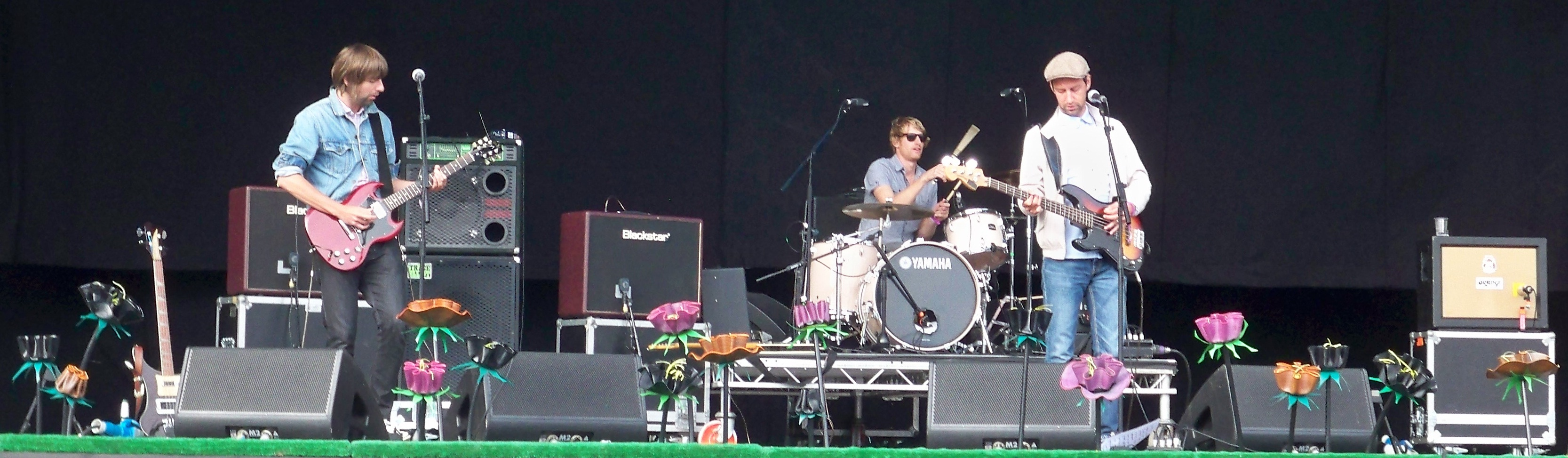 The Rifles performing at Guilfest 2011.